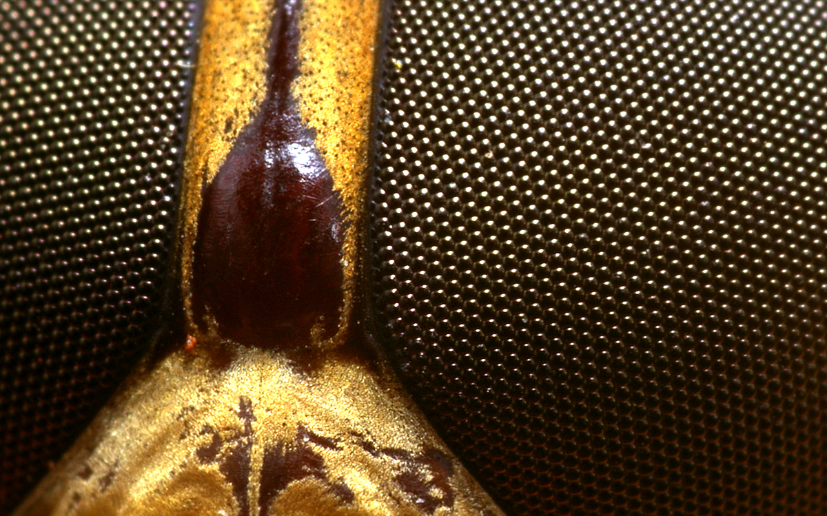 Ommatidia of a Horse Fly.